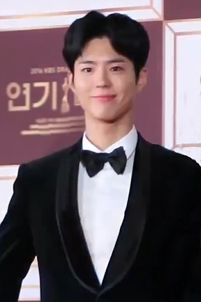 At KBS Drama Awards 2016